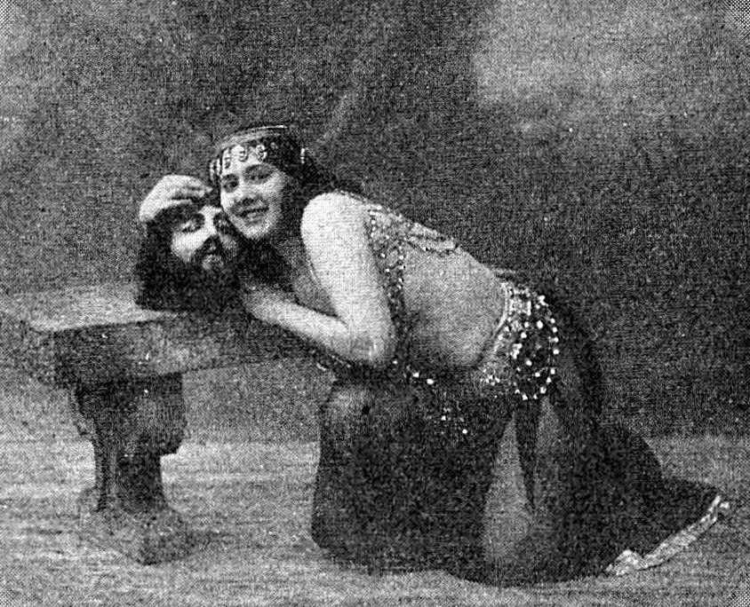 Mariotte - Salomé - Mlle de Wailly 3 from Comœdia illustré, 15 December 1908